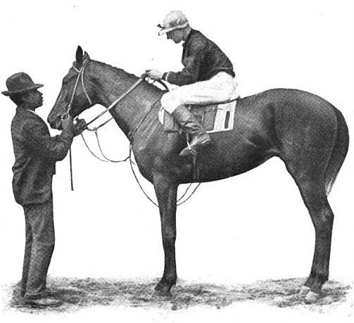 Jockey George M. Odom mounted on champion Thoroughbred racehorse Broomstick